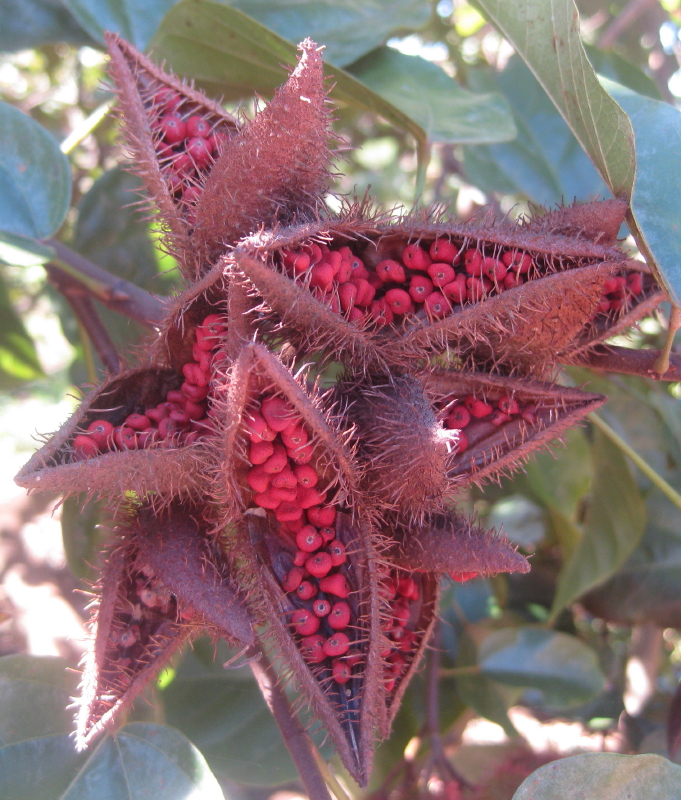 The seeds of Bixa orellana (family Bixaceae) is the source of annatto - a natural red dye used for colouring food and cosmetics. Photographed in Manica province, Mozambique, Africa.